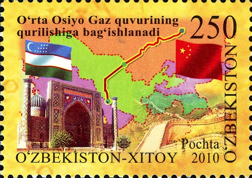 Stamps of Uzbekistan, 2010